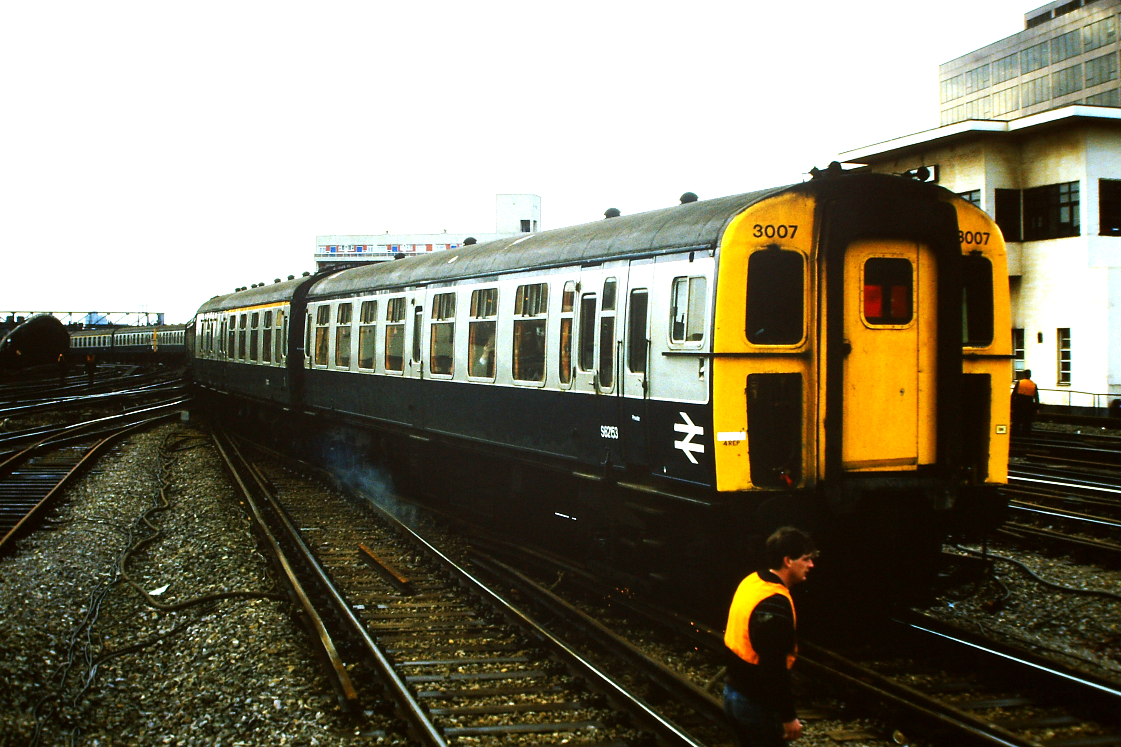 B.R.(S.R.) Class "4-REP" (Class "430" later Class "432") Standard Mk.I, 750 v dc 3rd rail 4-car e.m.u. No.3007 of the 1964 batch in Rail Blue and Grey livery with all yellow front end departing Waterloo on a service to Weymouth via Bournemouth, March 1984. Scanned slide taken with a Canon AE-1 Program.